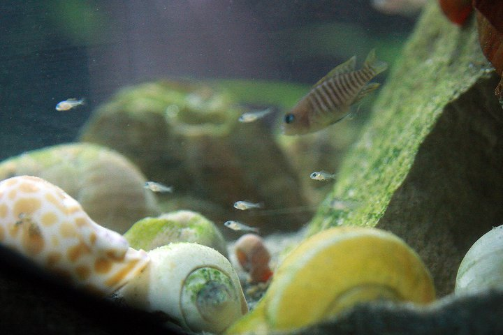 Neolamprologus multifasciatus babies